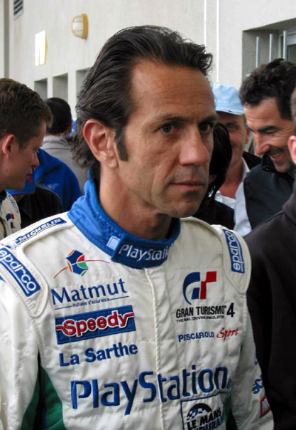 Erik Comas before driver's breafing at Le Mans (Preliminary practice May 2005)